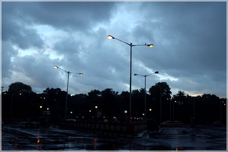 View of central Kolkata after rain. D:\Media files\22-10-2008 0839.jpg